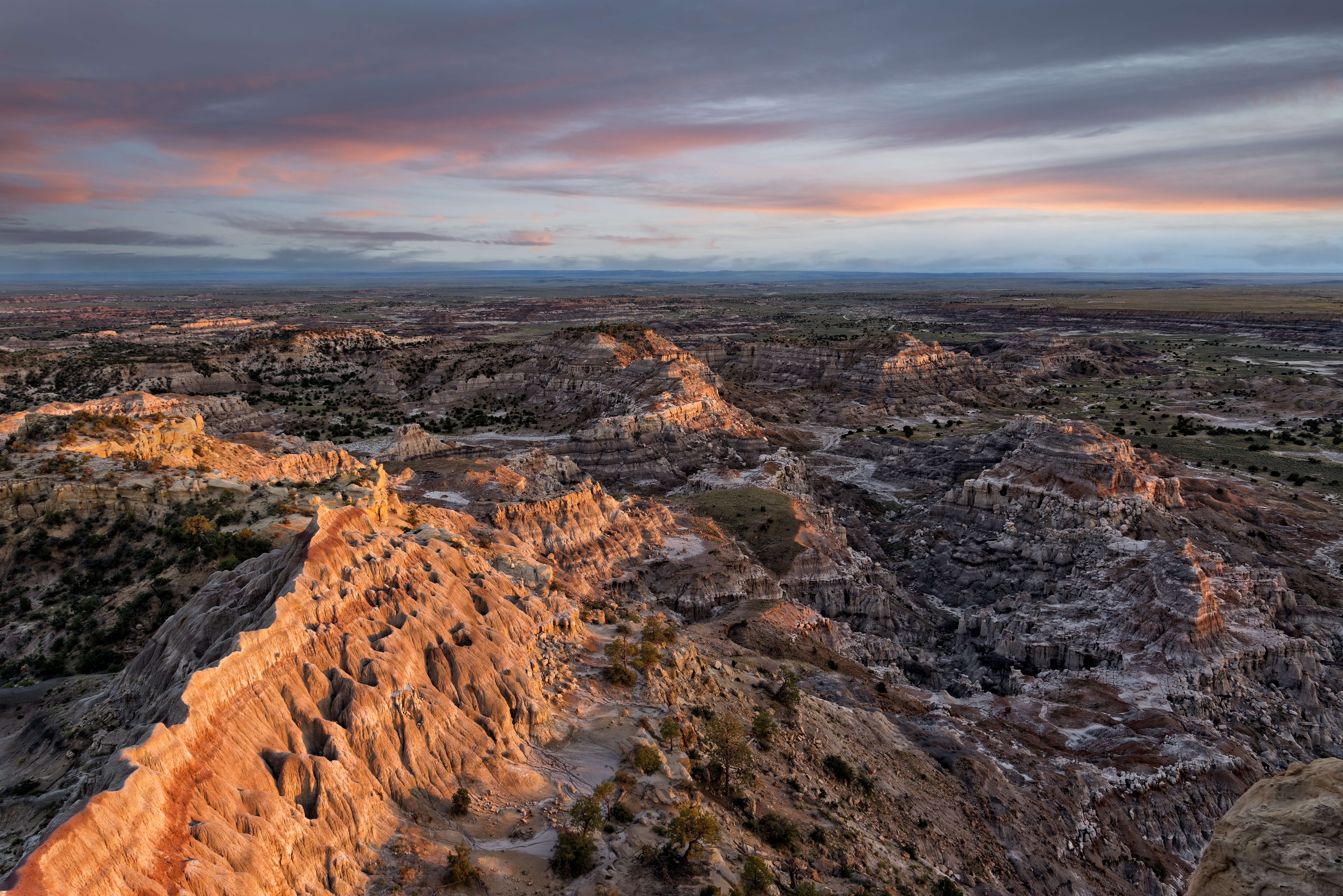 Badlands Overlook at Sunset